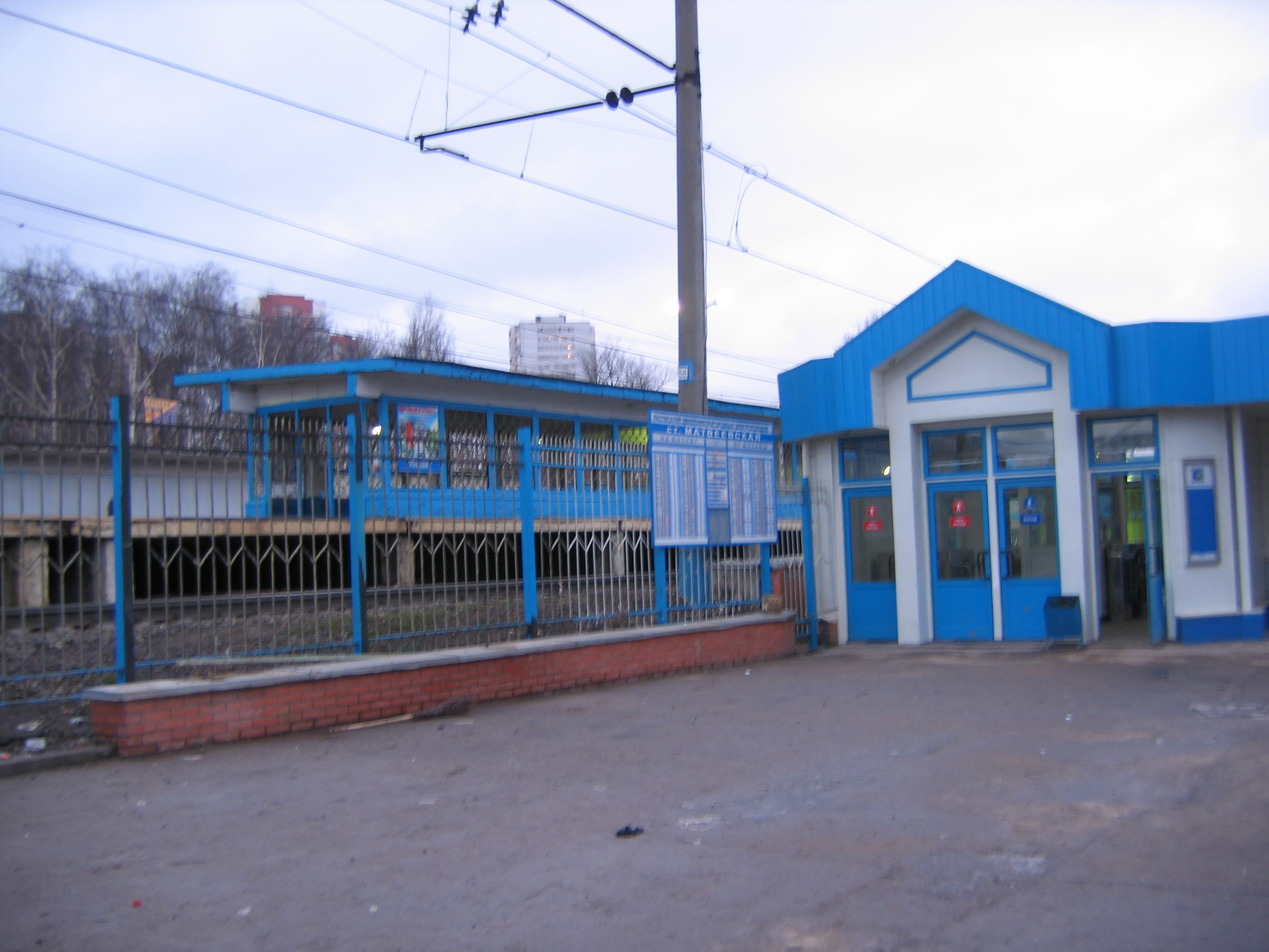 Matveevskaya railway station in Moscow, Russia